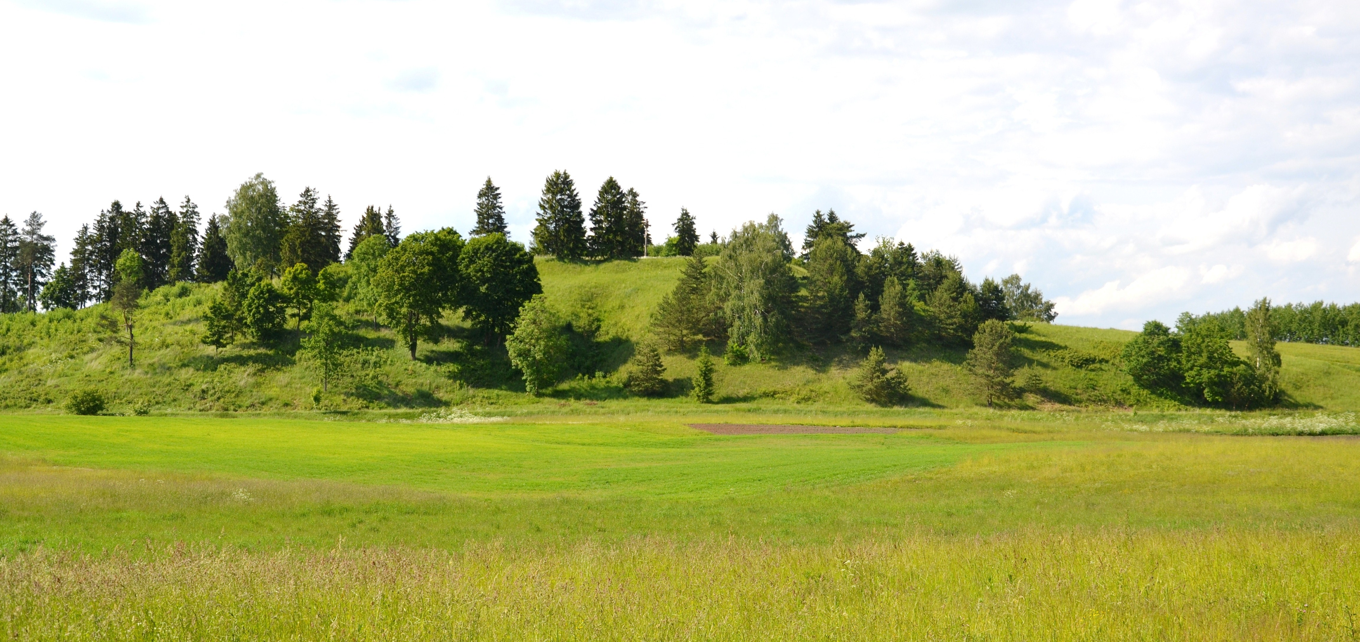 Pakalniai hillfort, Utena district, Lithuania